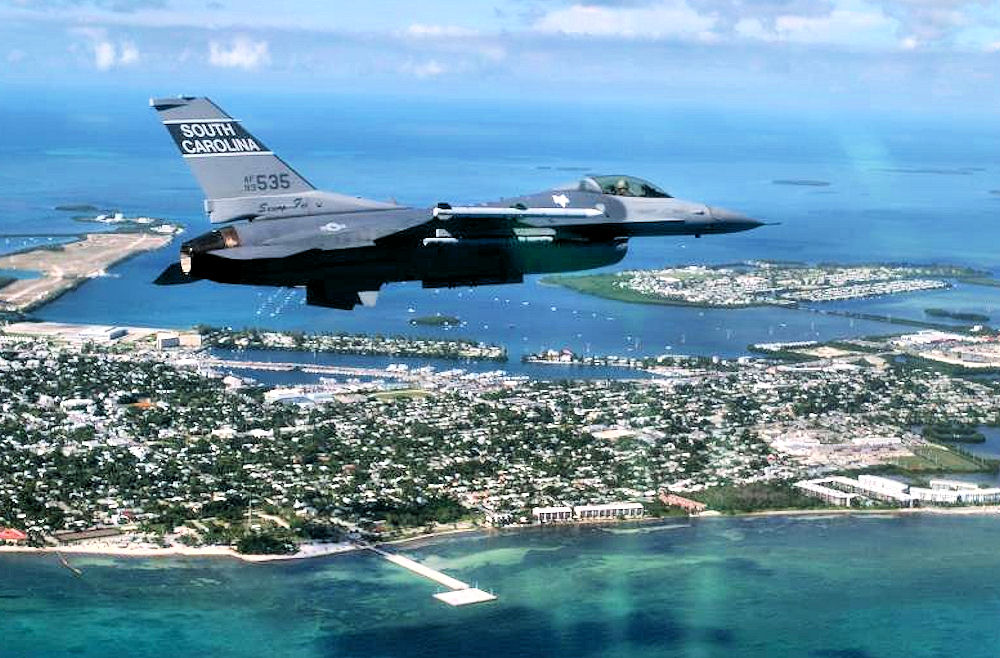 157th Fighter Squadron Lockheed F-16C Block 52Q Fighting Falcon 93-0535 over the Atlantic Coast [Photo by SSgt Shane Cuomo]